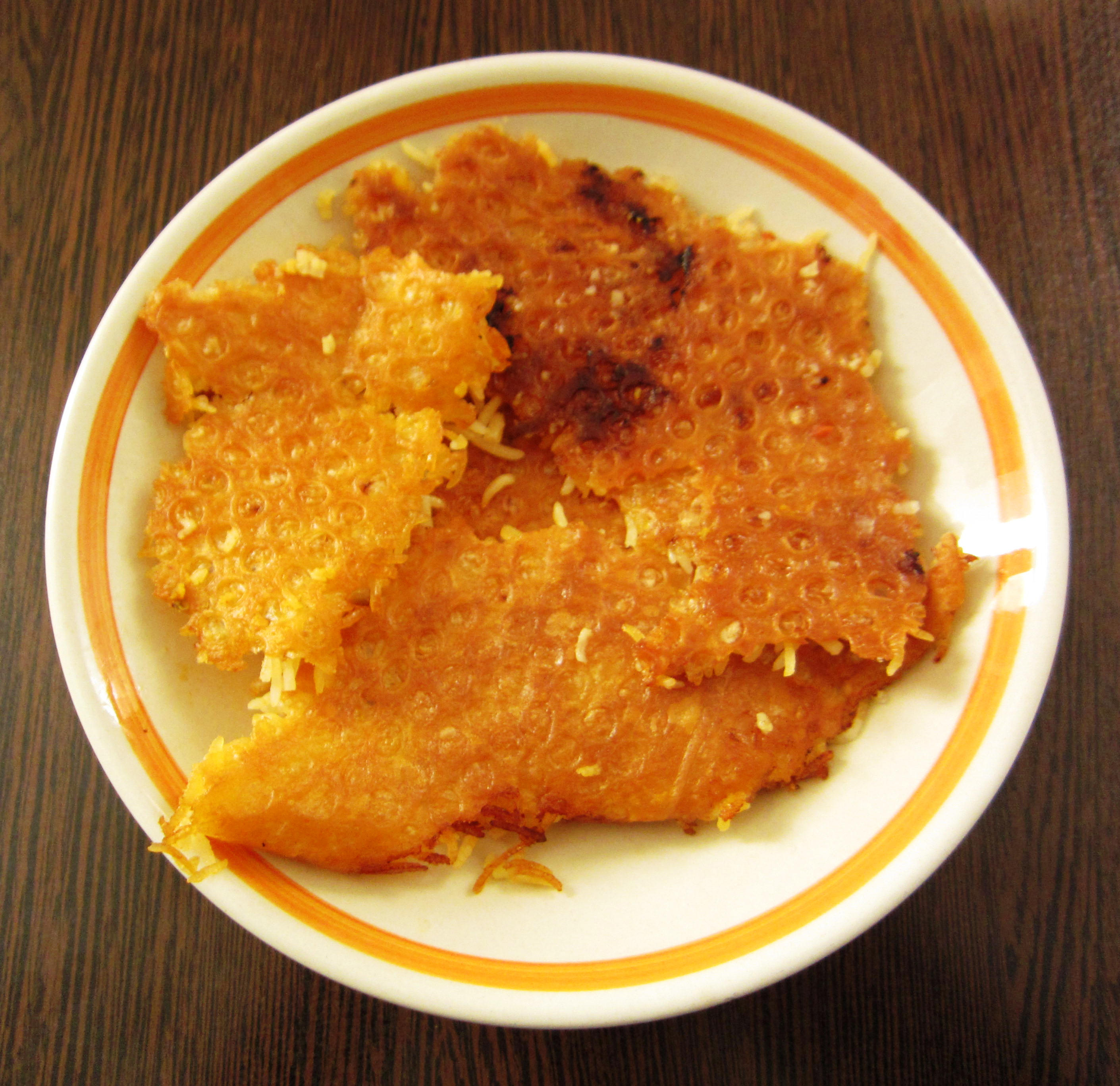 Iranian Tahdig, made of Lavash bread.